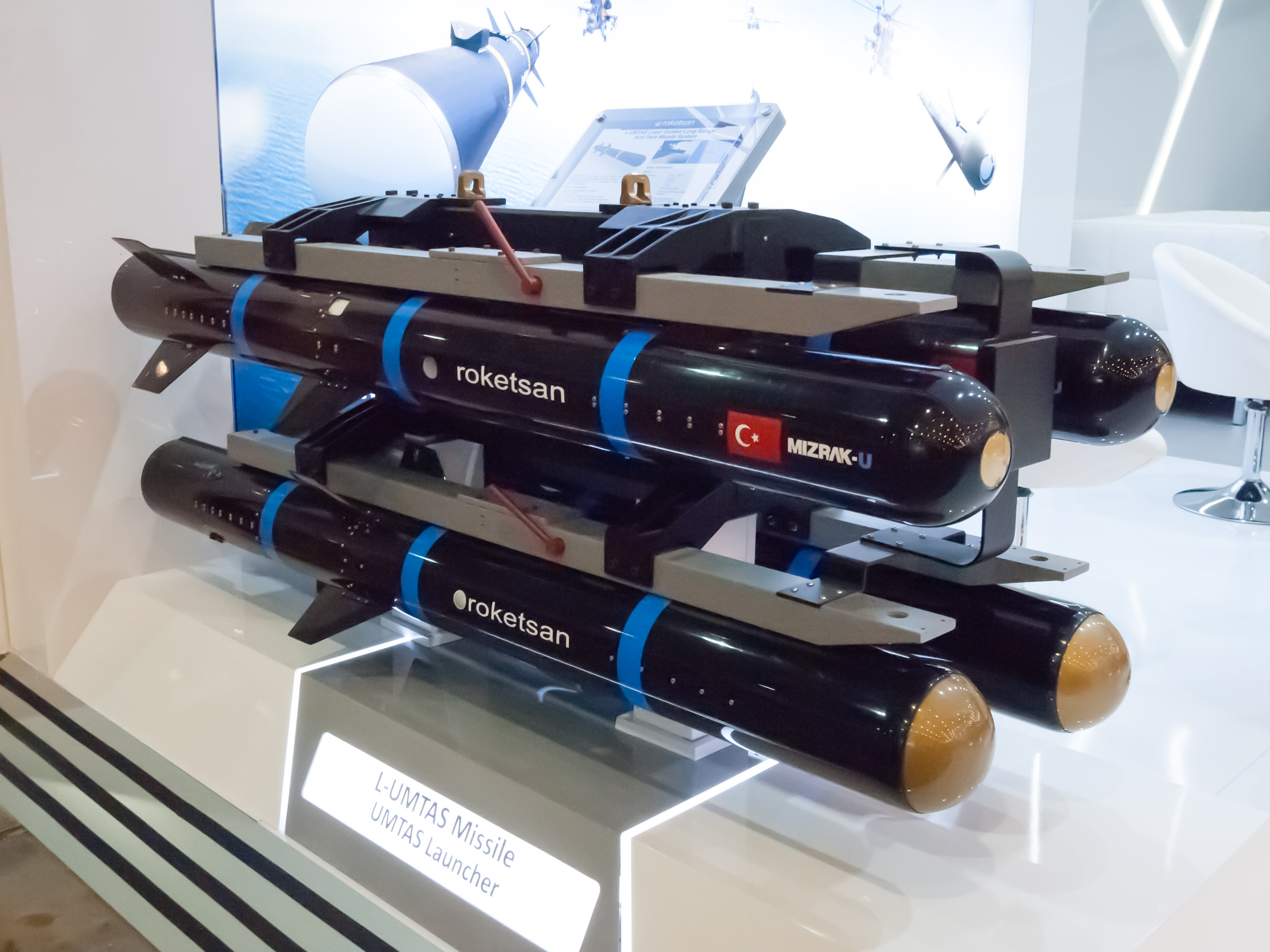 Turkish Roketsan display in Kyiv (Ukraine)